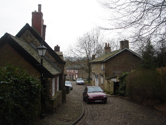 Firwood Fold. A surviving example of a fold, a local name for a group of cottages originally around a farm - a small village really.